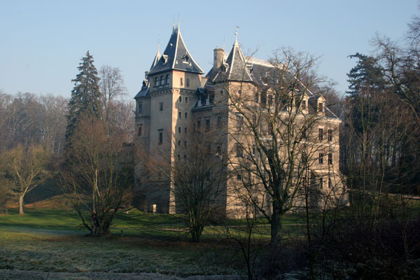 Gołuchów Castle